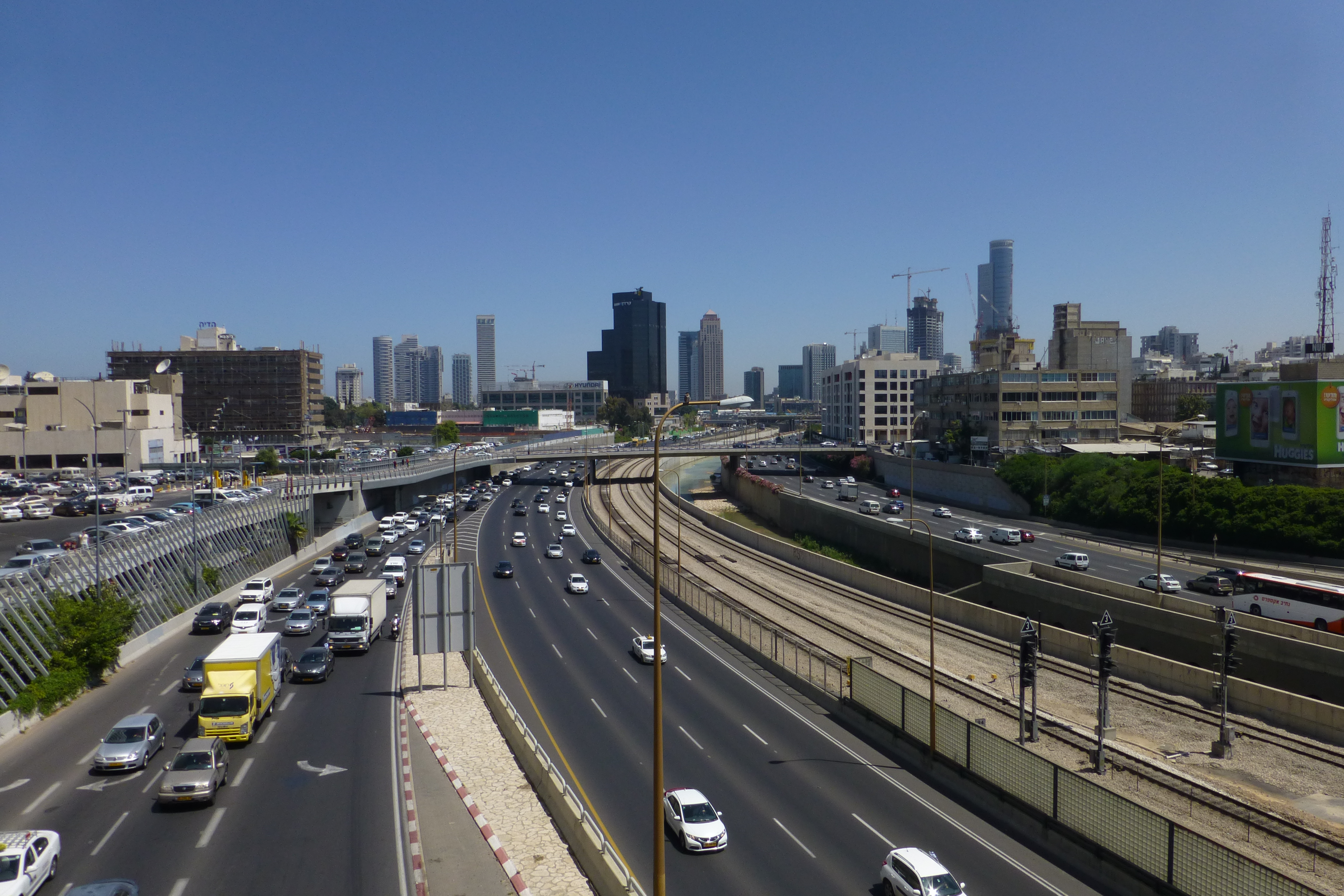 Highway 20 (Israel)